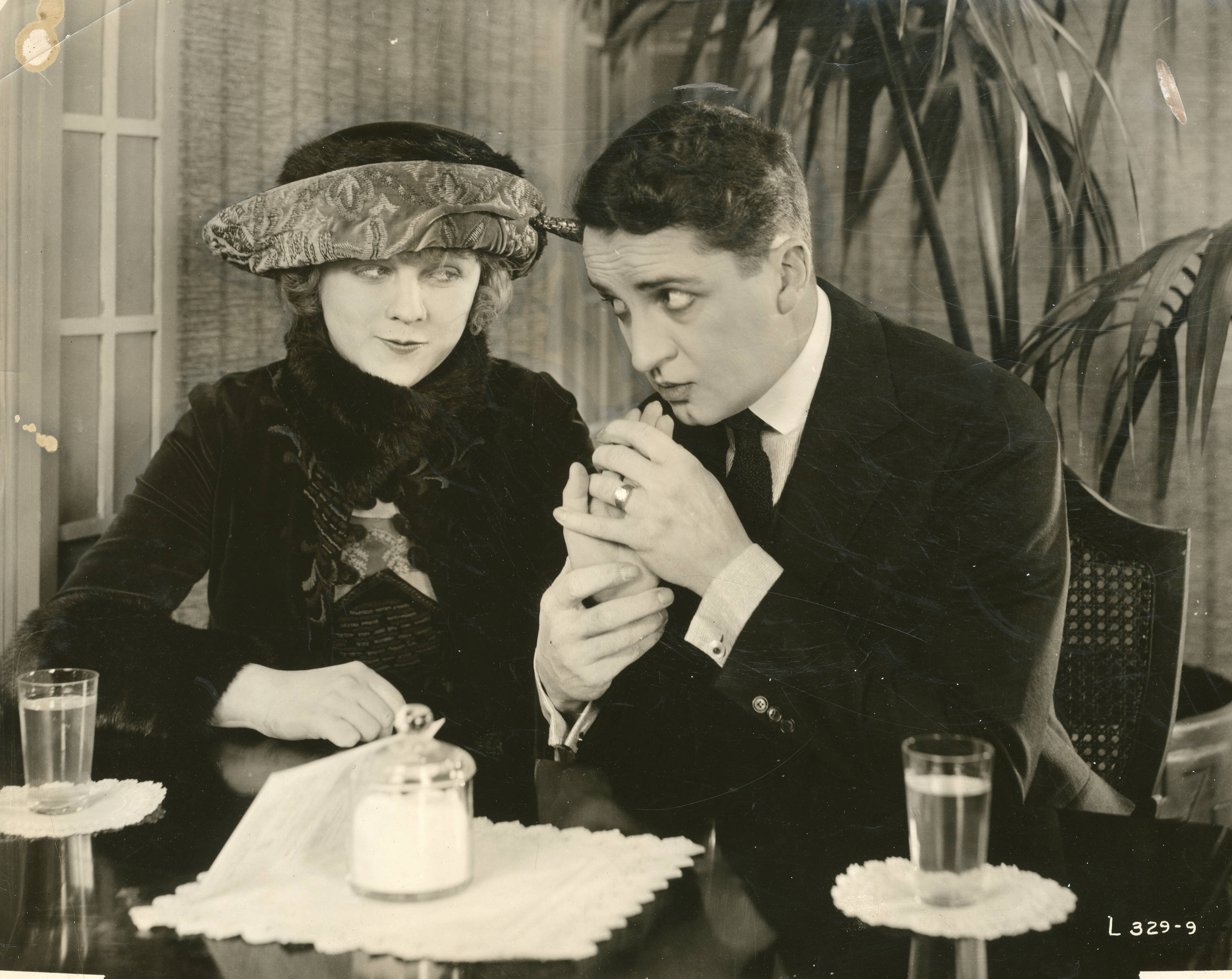 A scene from the American comedy film Mrs. Temple's Telegram (1920), which played at the Liberty Theater, Seattle. Includes Bryant Washburn and Wanda Hawley. Subjects: motion pictures, actors, actresses